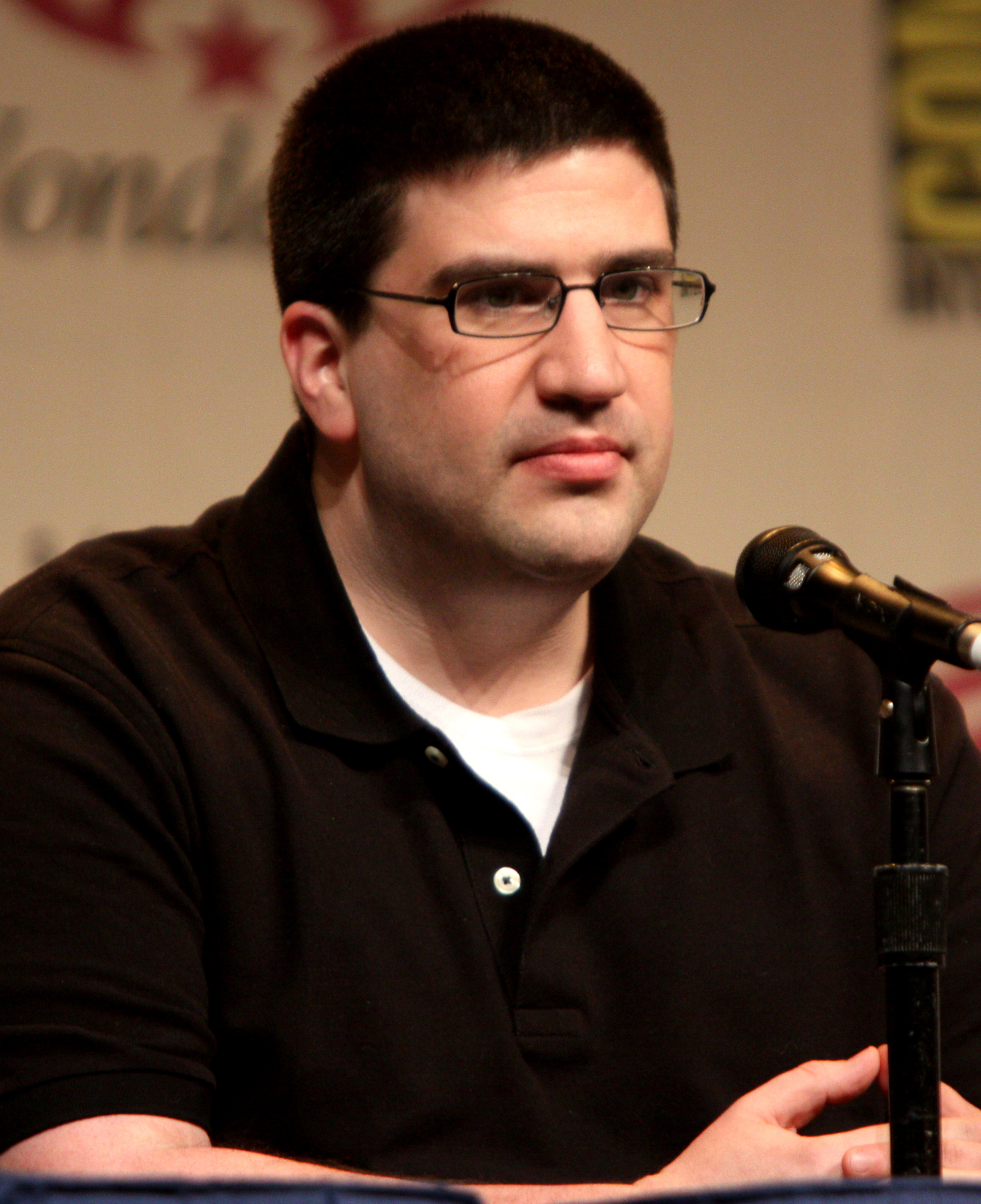 Adam Horowitz speaking at Wondercon 2012 in Anaheim, California on March 18, 2012.